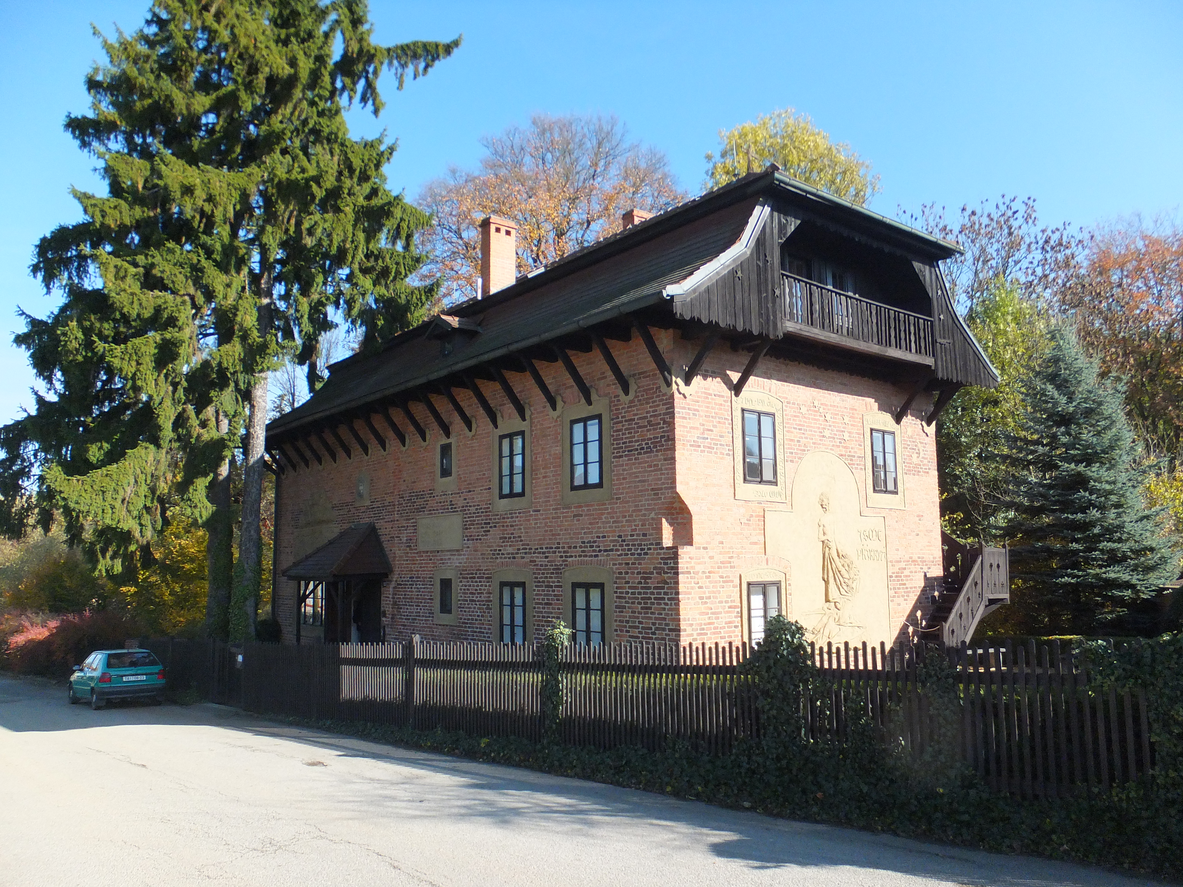 Chýnov - The František Bílek's house (No. 133)